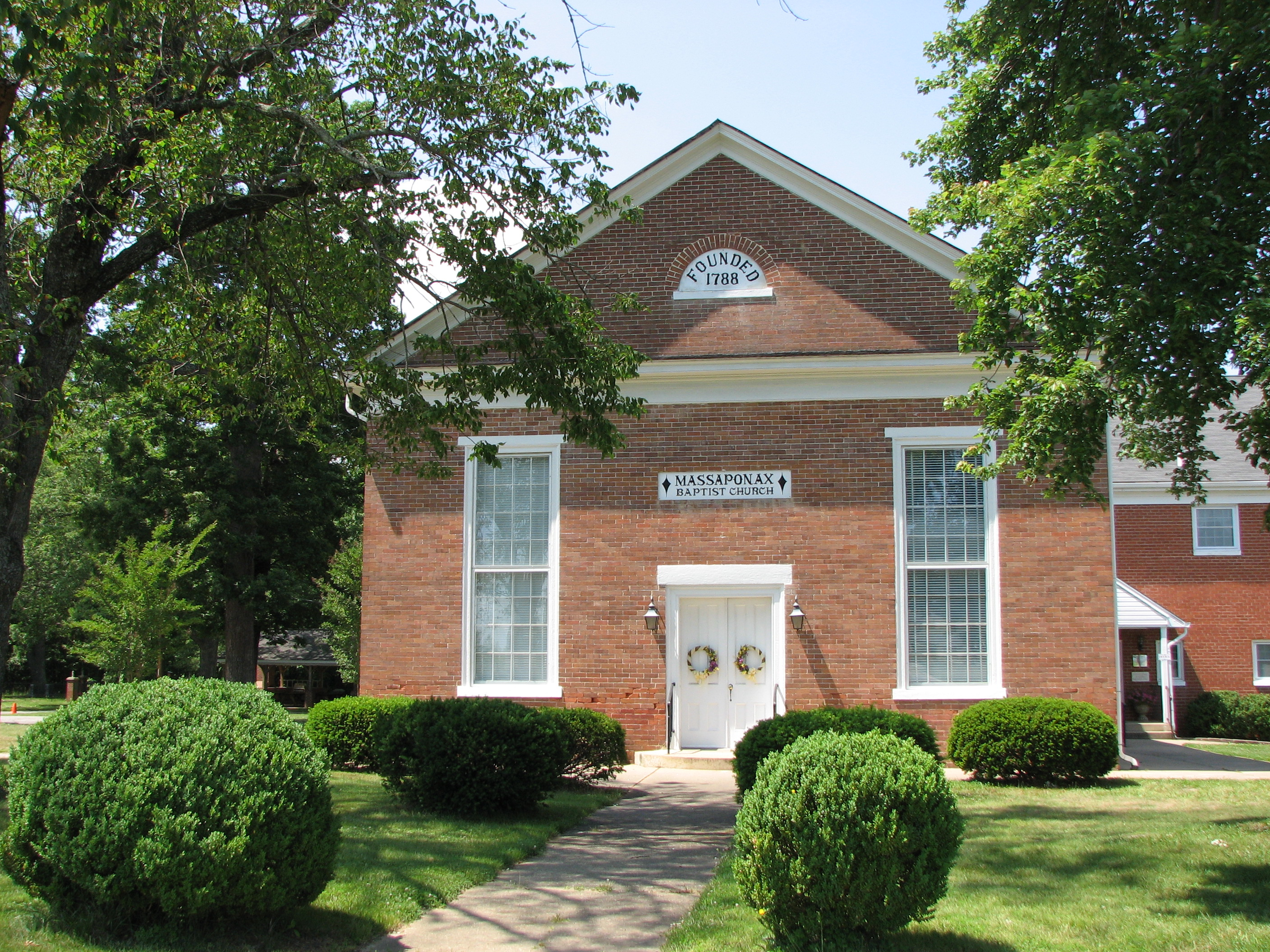 Listed on the National Register of Historic Places in Spotsylvania County, Virginia